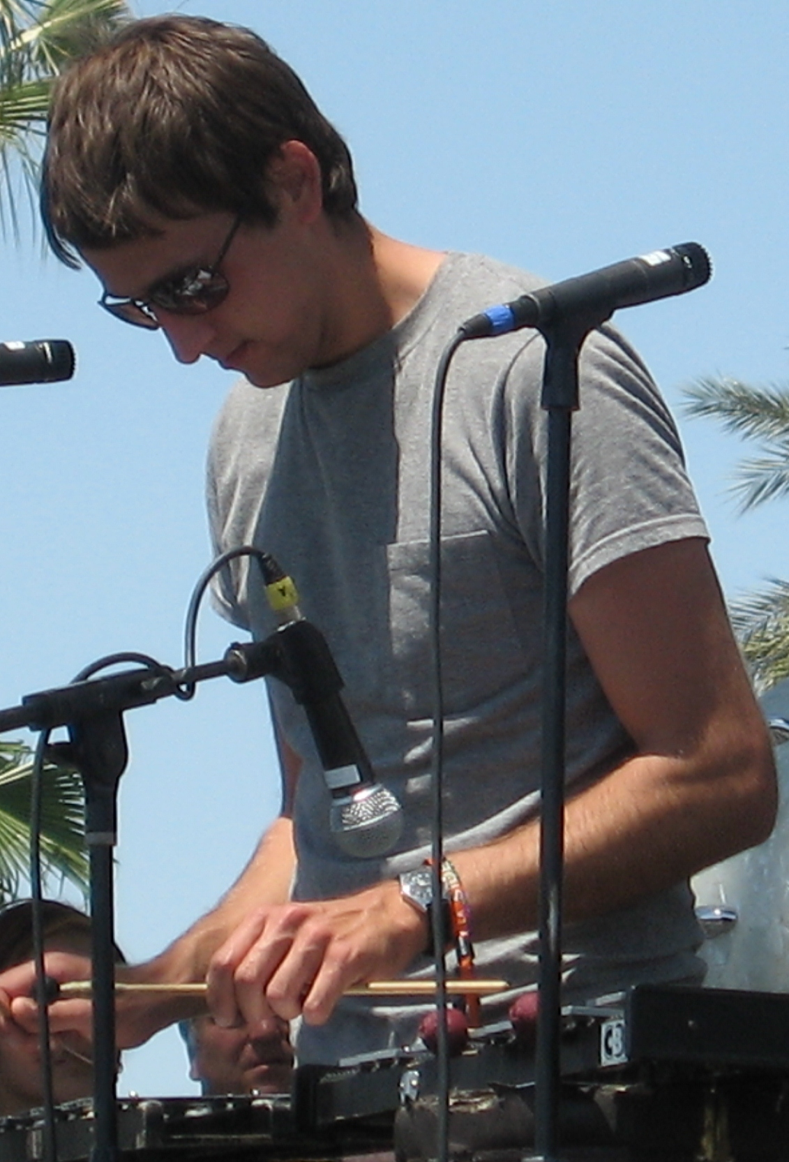 Andrew Dost - Detail of File:Anathallo.jpg